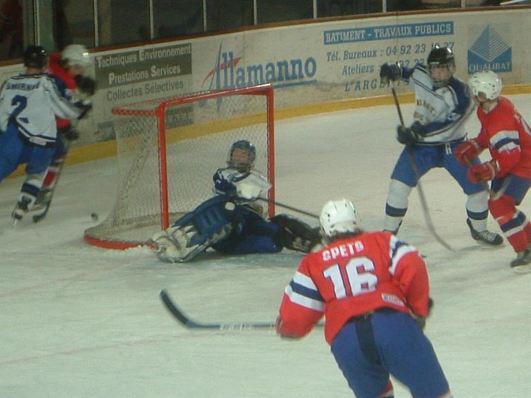 Lars Erik Spets, norvegian ice hockey player